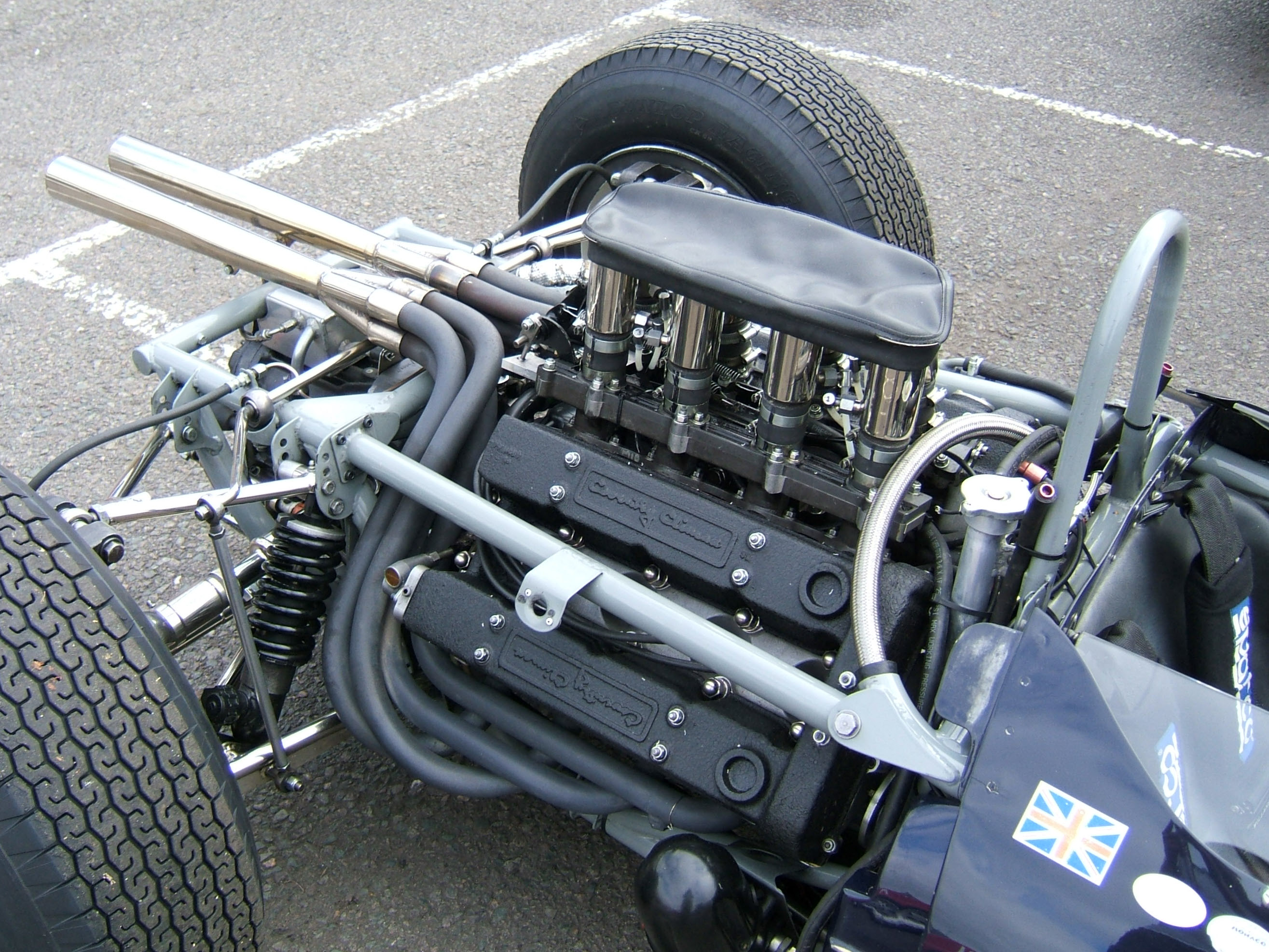 A 1.5 litre Coventry Climax FWMV V8 Formula One engine, installed in a Cooper T66, in the paddock of the VSCC SeeRed race meeting, Donington Park, September 2007.